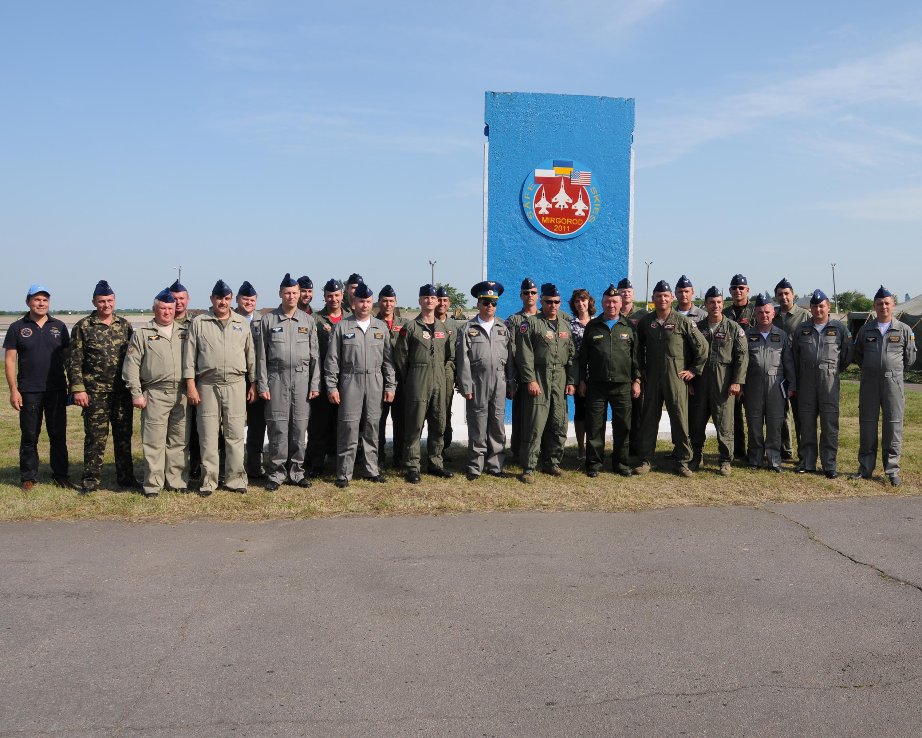 The Ukrainian Air Force pilots pose with the California and Alabama Air National Guard after they shared the customary bread at Mirgorod Air Base, Ukraine; in preparation for SAFE SKIES 2011, a joint Ukraine, Poland, U.S., aerial exchange event in Ukraine.